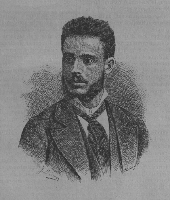 Medard Sanmartí i Aguiló, in La Veu de Catalunya magazine of 9.8.1891